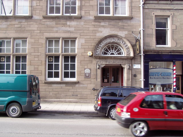 Meffan Institute Meffan Institute is now a museum and houses an excellent collection of well displayed Pictish Stones.